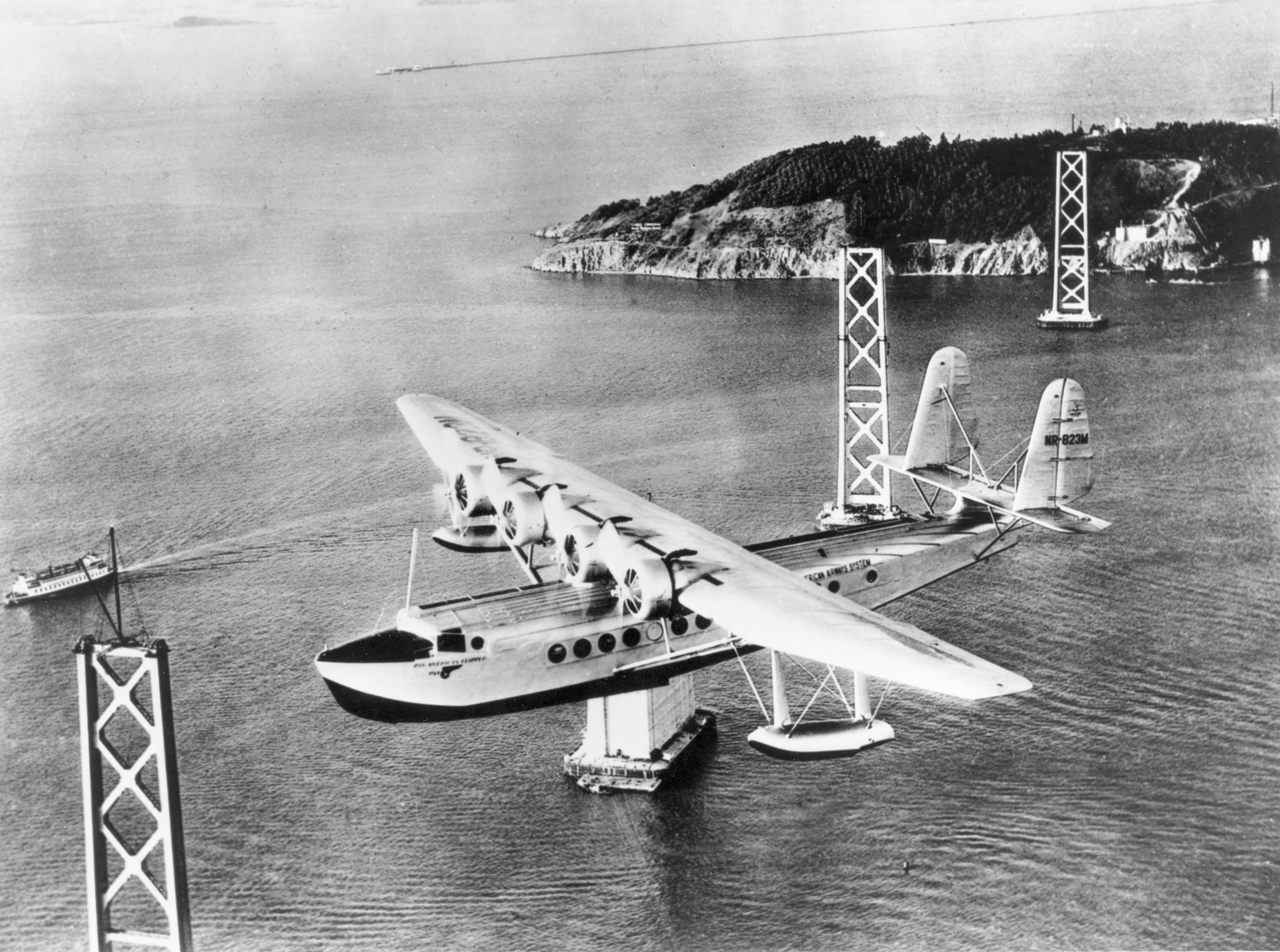 One-quarter left front view of Pan American Airways Sikorsky S-42 "Pan American Clipper" (r/n NR-823M; c/n 4201) in flight over San Francisco Bay on its way to Hawaii. San Francisco-Oakland Bay Bridge construction is visible; circa 1934.